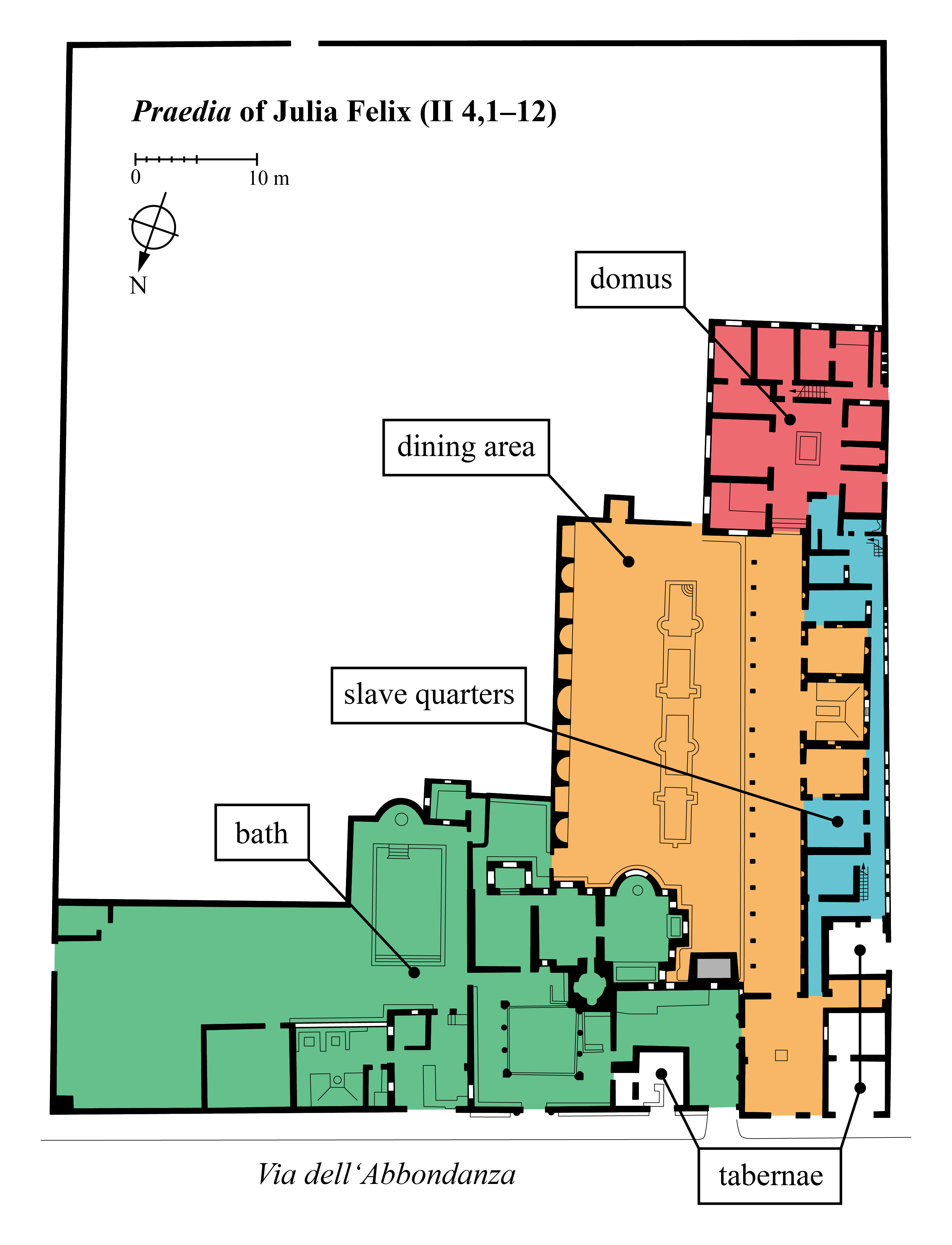 Functional areas in the Praedia of Julia Felix at Pompeii (II 4, 1–12)